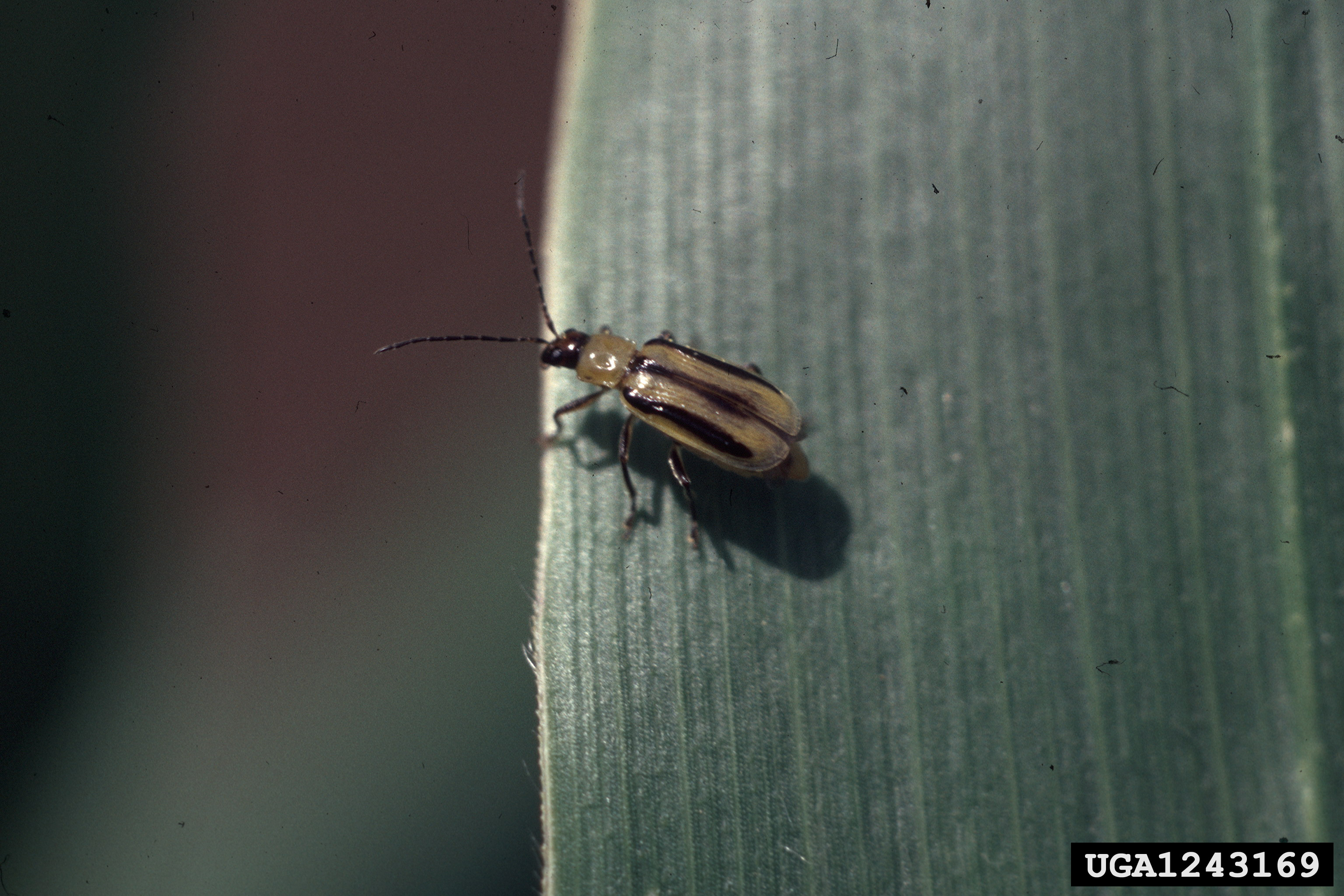 Western corn rootworm (Diabrotica virgifera virgifera LeConte) on corn (Zea mays)